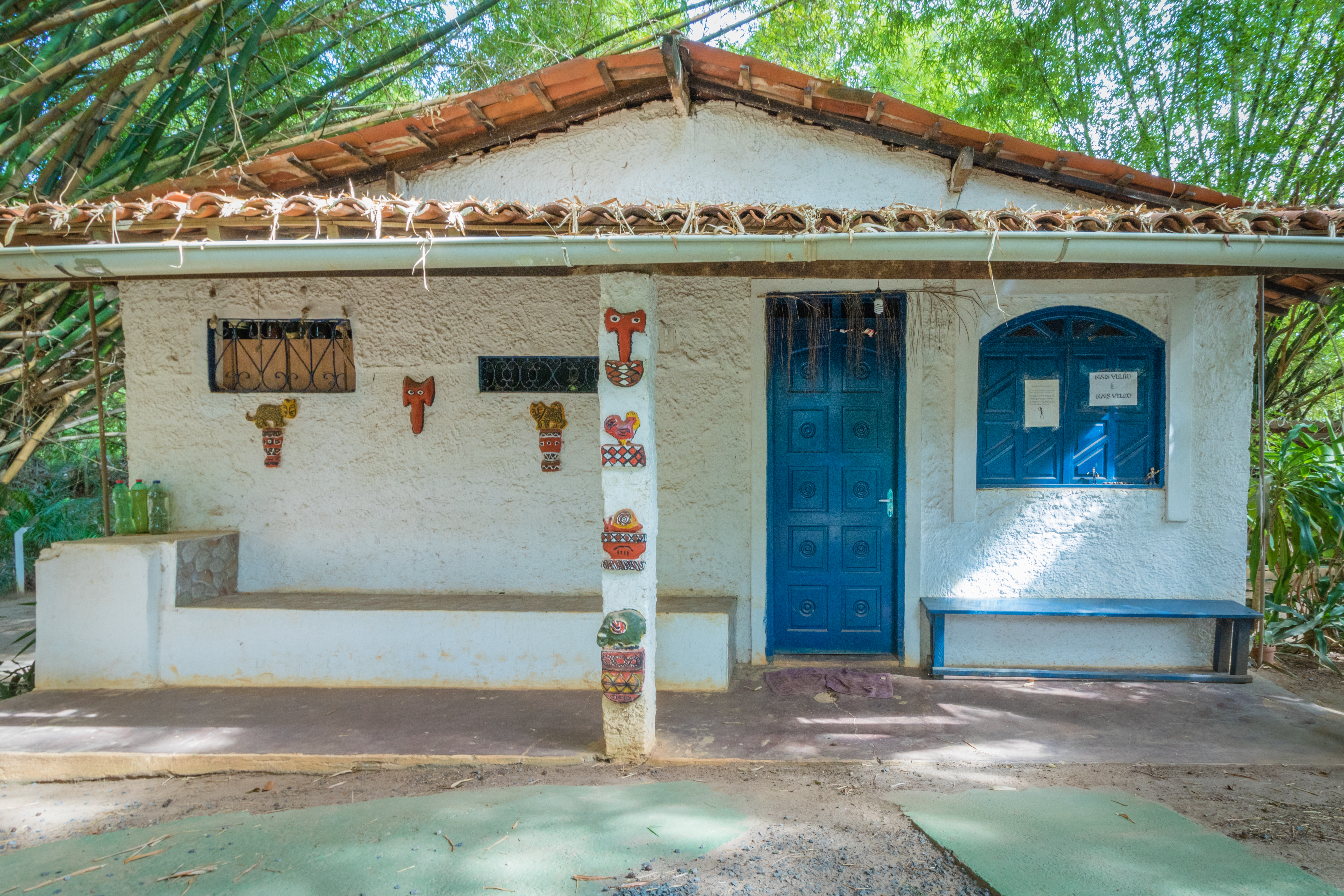 Structure in Terreiro Ilé Axé Asìpá, a Candomblé temple in Piatã, Salvador, Bahia, Brazil.